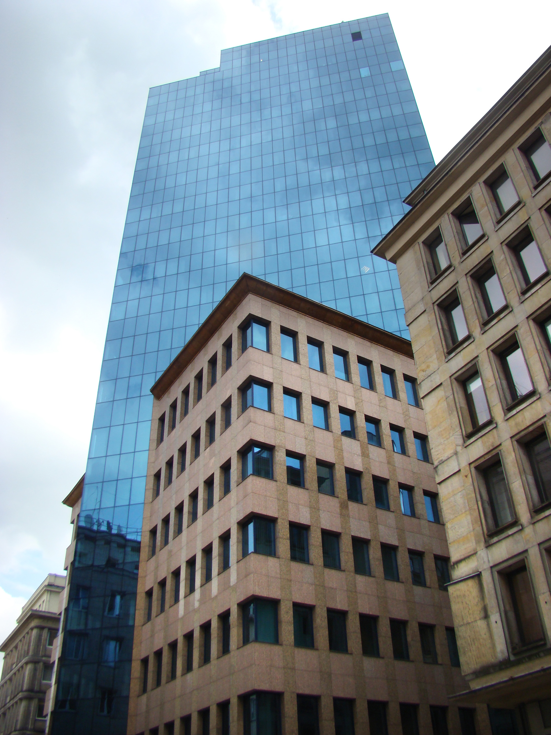 Moniuszki Tower, Warsaw